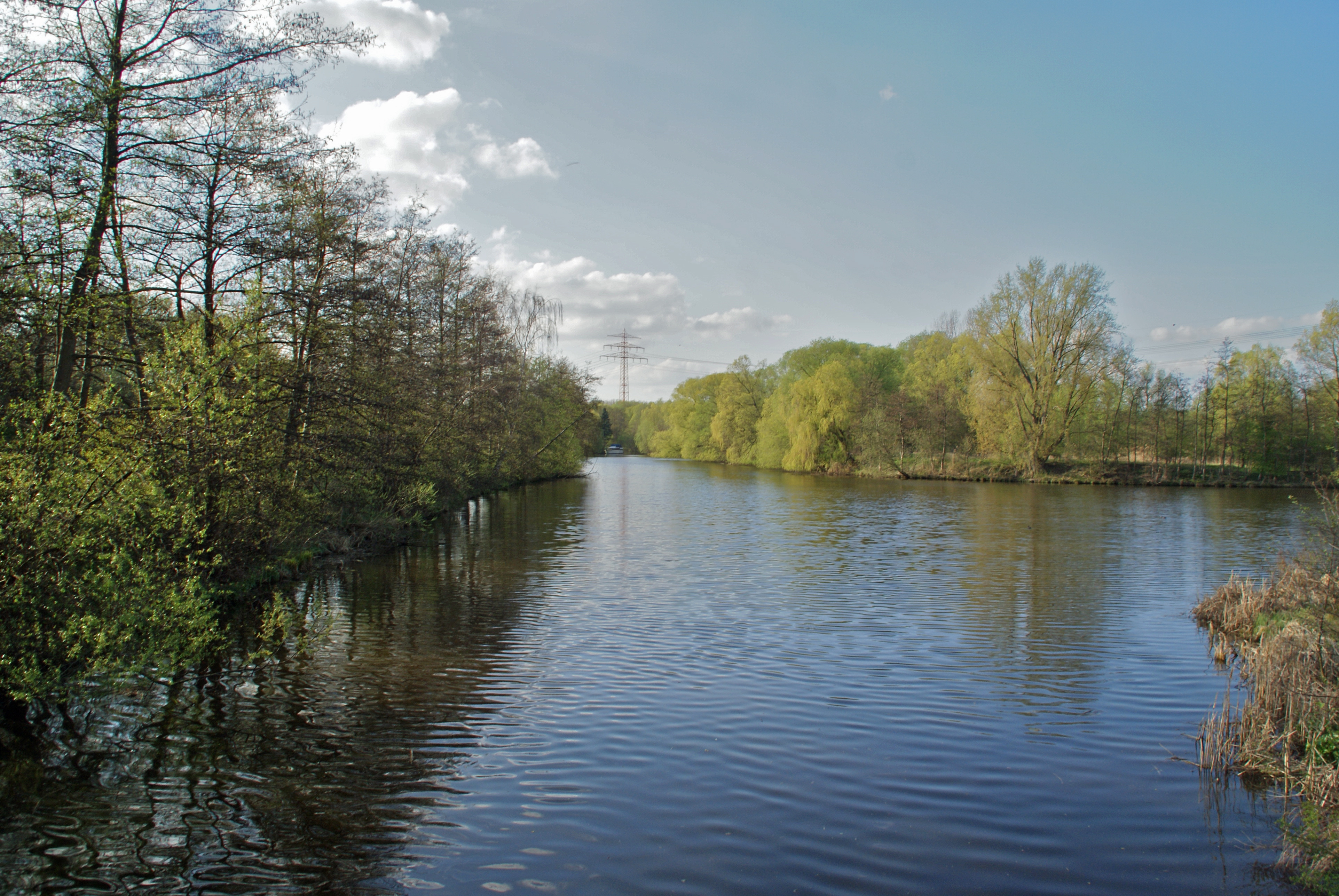 Hamburg (Billstedt), Germany: Confluence of the Bille and the Steinbek